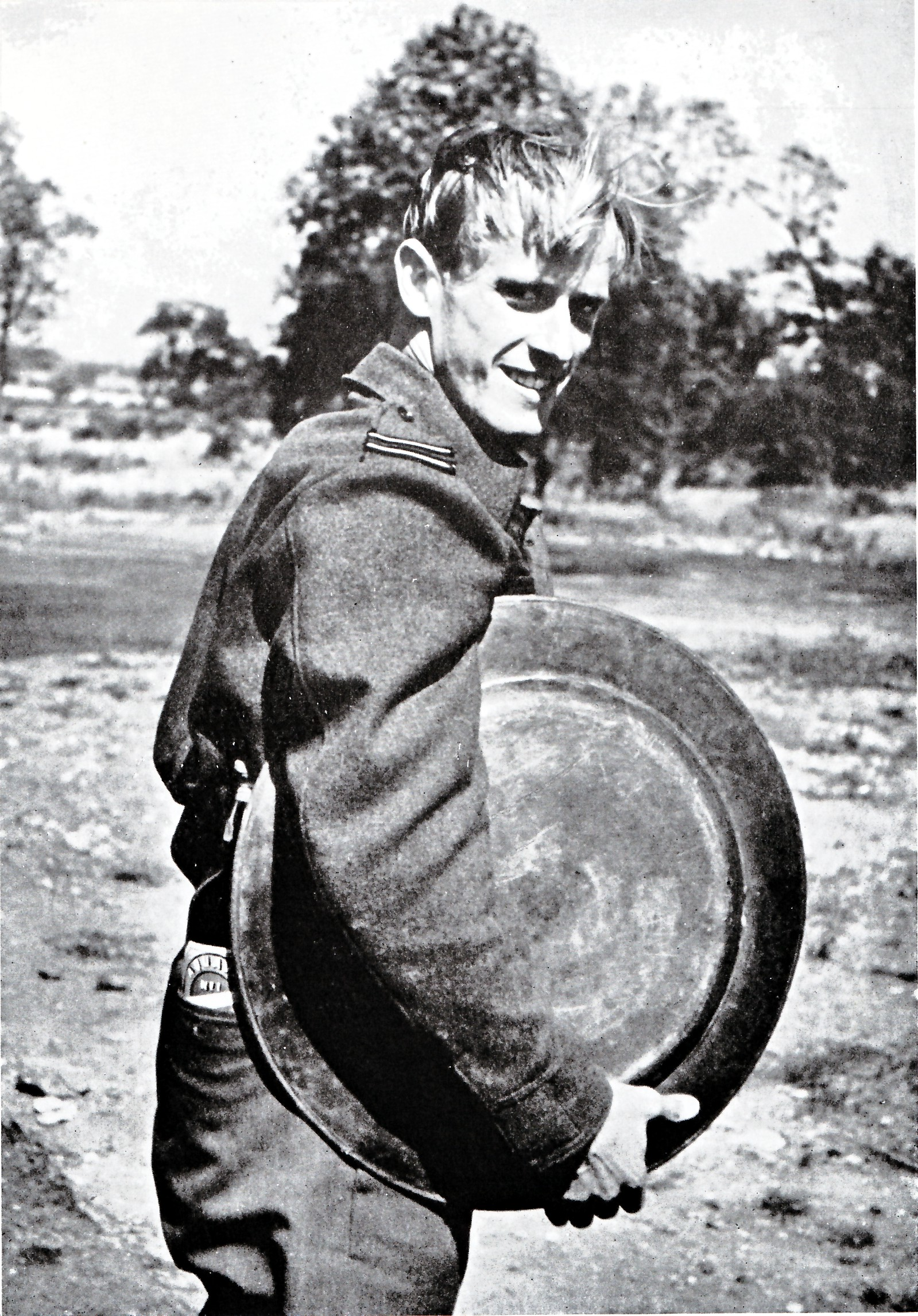 Norwegian air force man, kaptein Svein Heglund, in the United Kingdom during World War II.